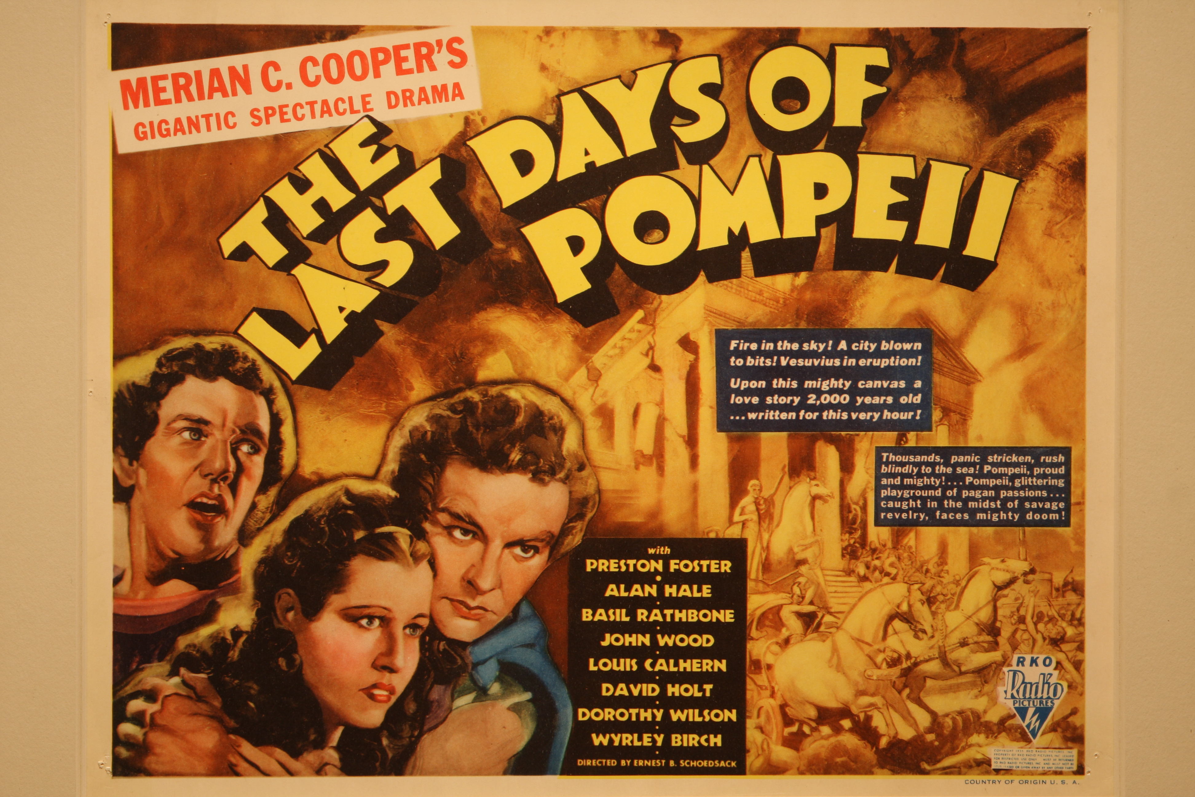 Poster for the 1935 film Last Days of Pompeii directed by Ernest B. Shoedshack.